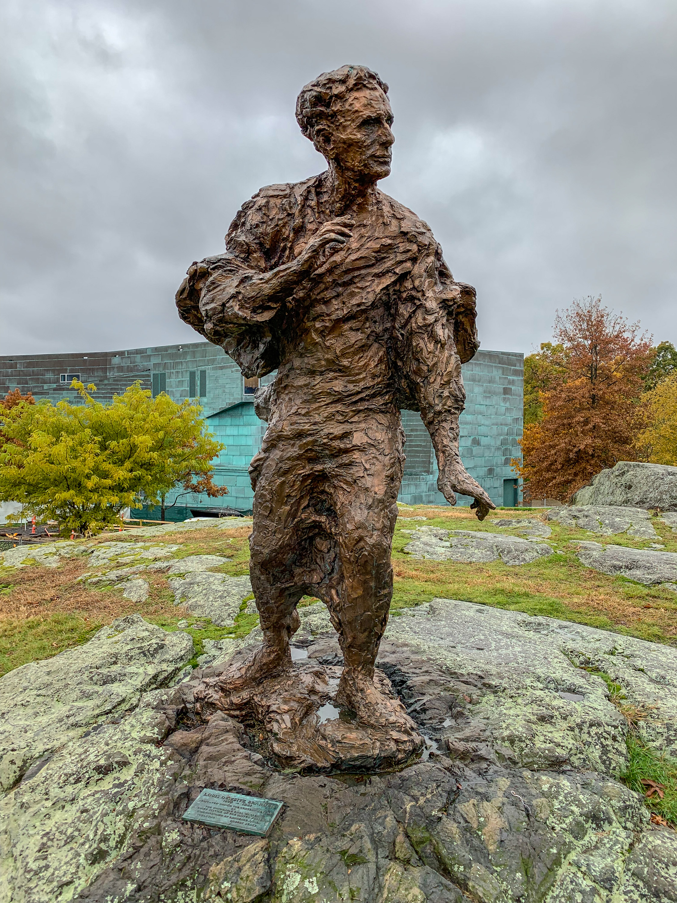 Statue of Justice Louis Brandeis atop the outcropping called Boston Rock at Brandeis University. The nine-foot bronze was created in 1956 by sculptor Robert Berks.